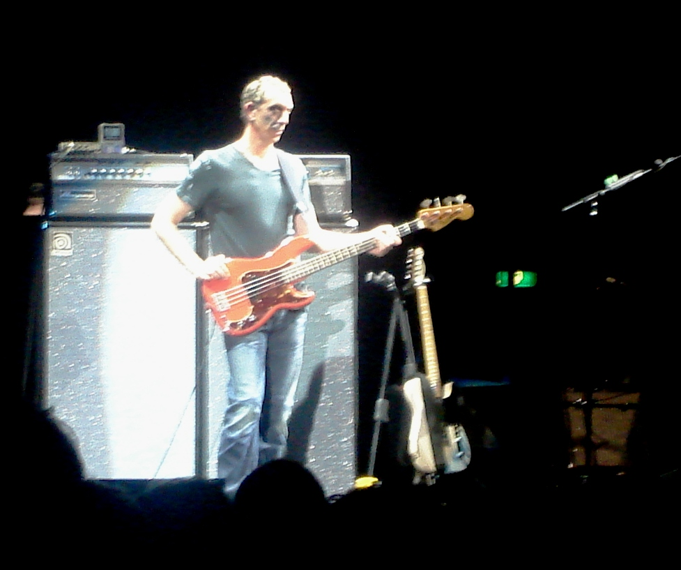 The Who performing at the Rotterdam Ahoy'